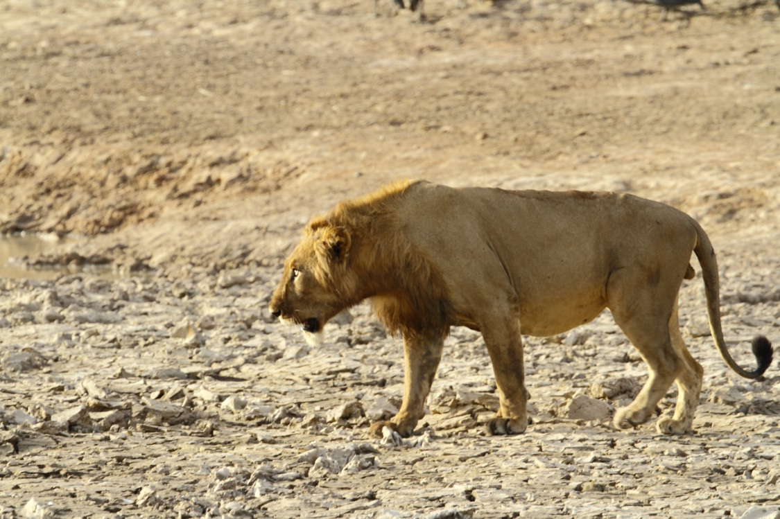 West African male lion from Pendjari National Park, Benin.